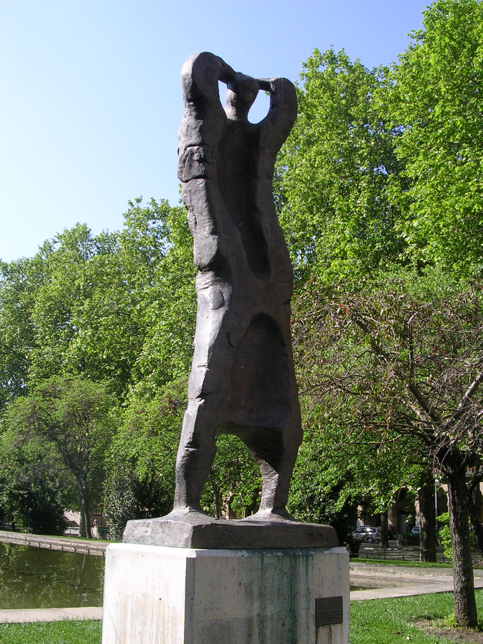 “The Korean”, bronze sculpture by Jorge Oteiza in Pamplona, Avenida Carlos III, based on 1950 model